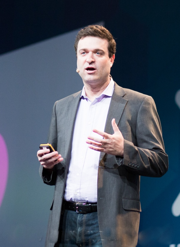 The Next Web Conference 2015